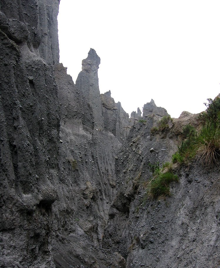 Looking up at the Putangirua Pinnacles, in New Zealand's Wairarapa district.